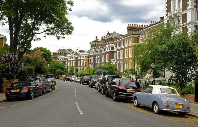 Image of Gloucester Crescent in Camden Town taken by Julian Osley in 2016 - Attribution-ShareAlike 2.0 Generic (CC BY-SA 2.0)